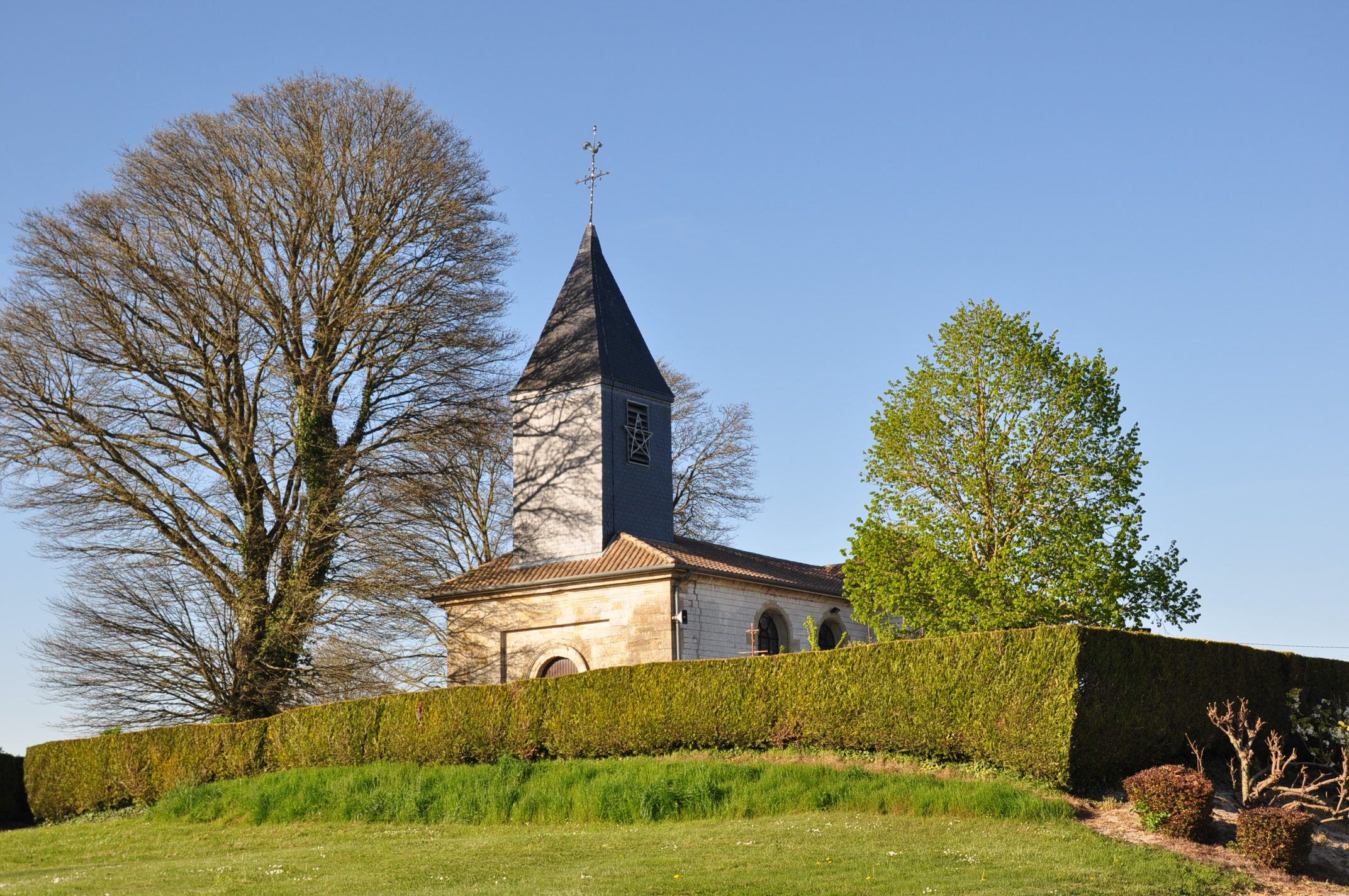 The church of Saint Silvin (Silvinus) in La Croix-en-Champagne (Marne Department, France).